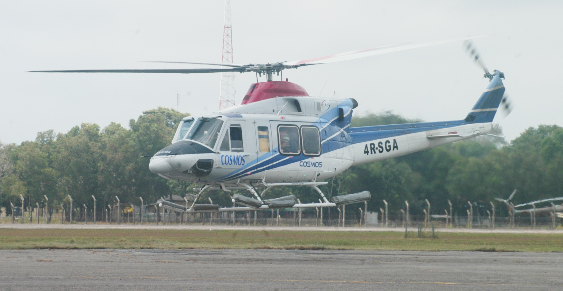 Bell 412 EP helicopter operated by Cosmos Aviation Services in 2011 at Ratmalana airport in Sri Lanka